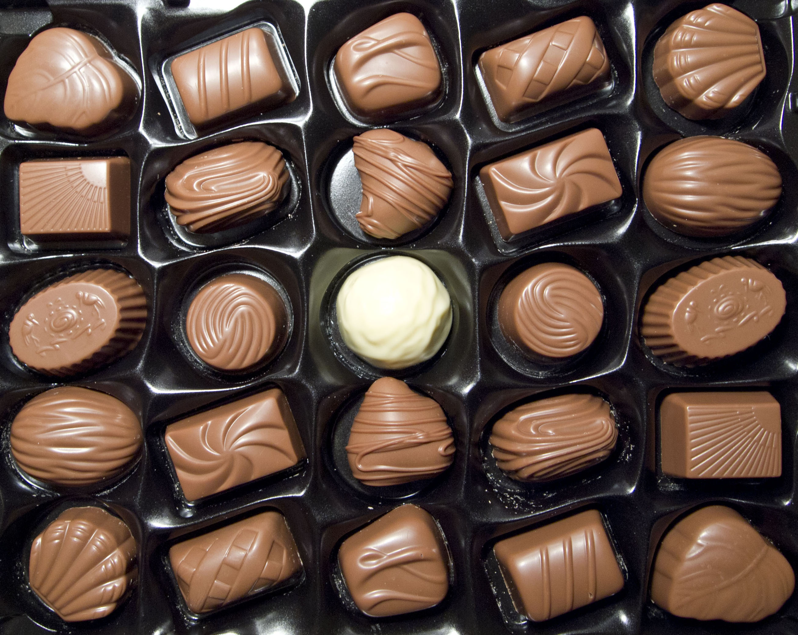 Chocolate box Paradis by Marabou.